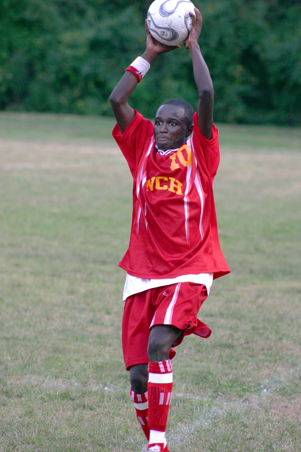 A high school soccer player from Senegal prepares to execute a throw-in along the sideline of a varsity game.